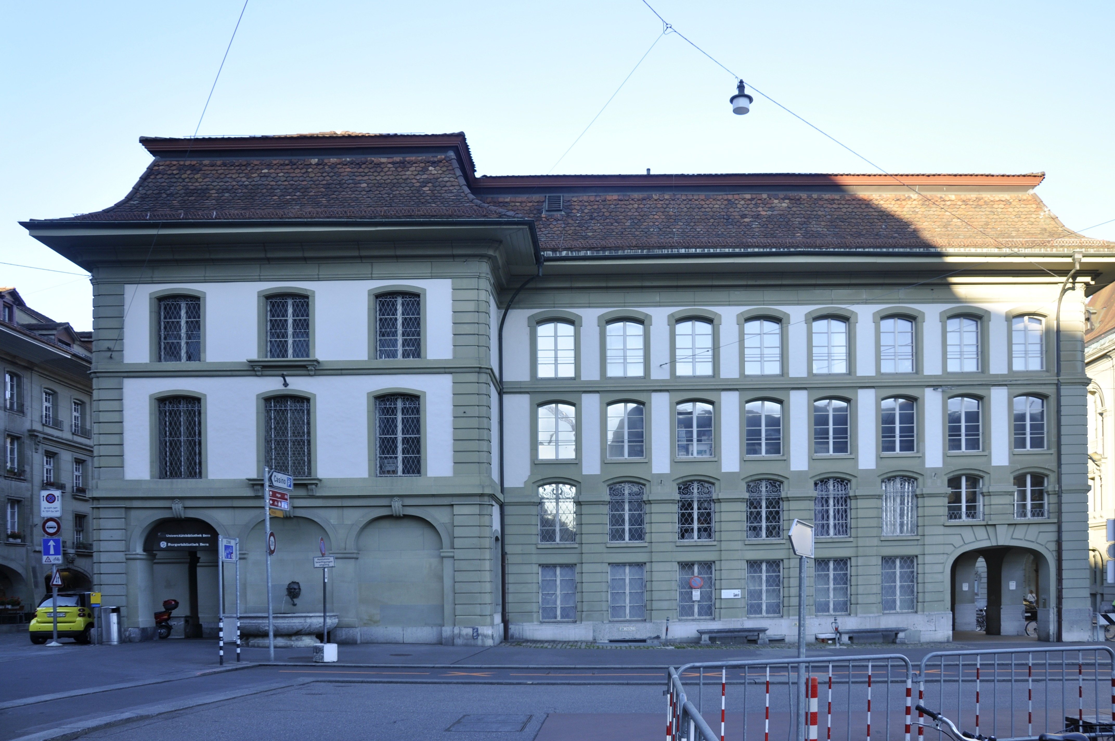 Zentralbibliothek (Central Library) in BerneUnknown zentralbibliothek bern